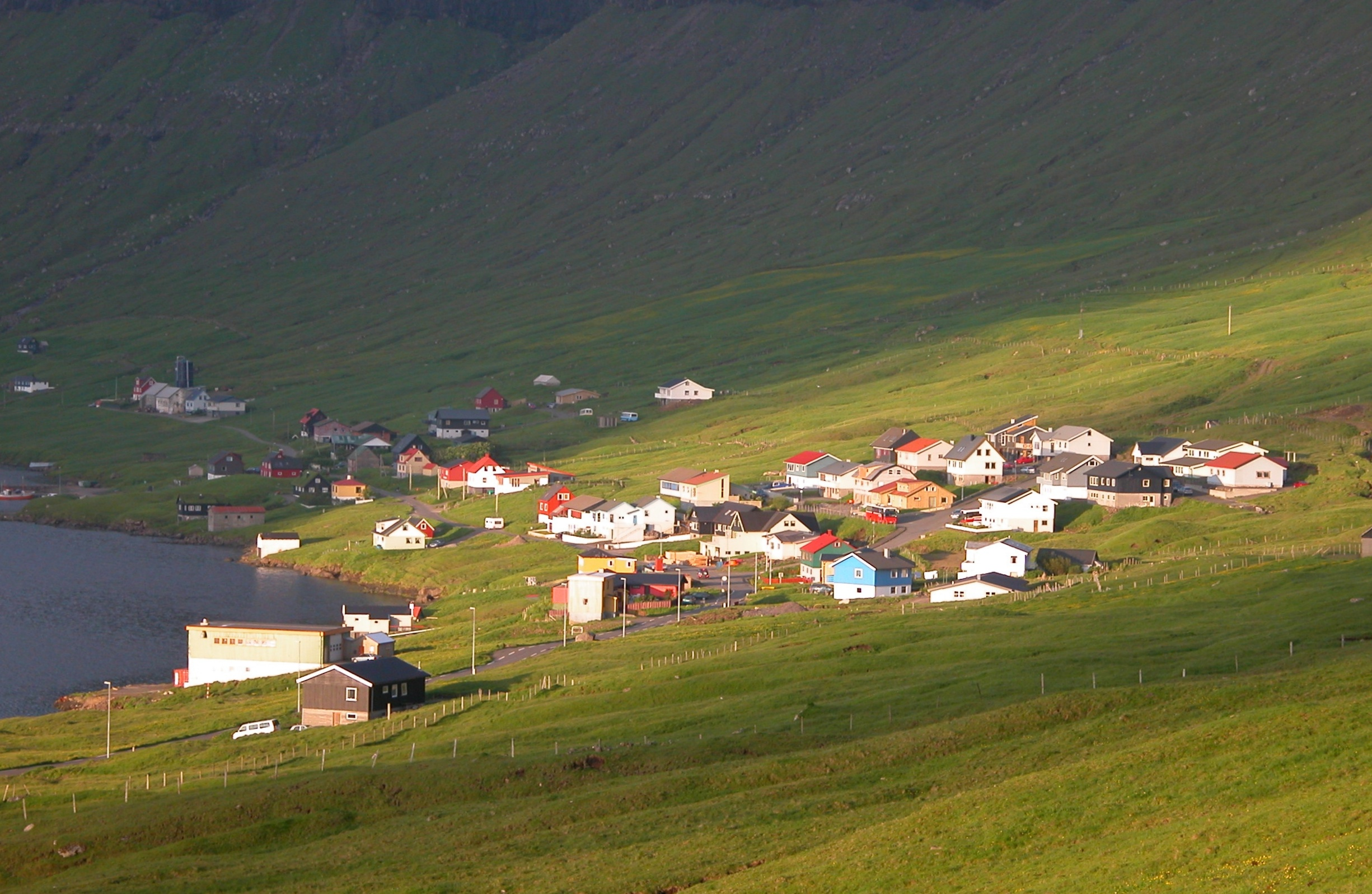 Signabøur on Streymoy, Faroe Islands